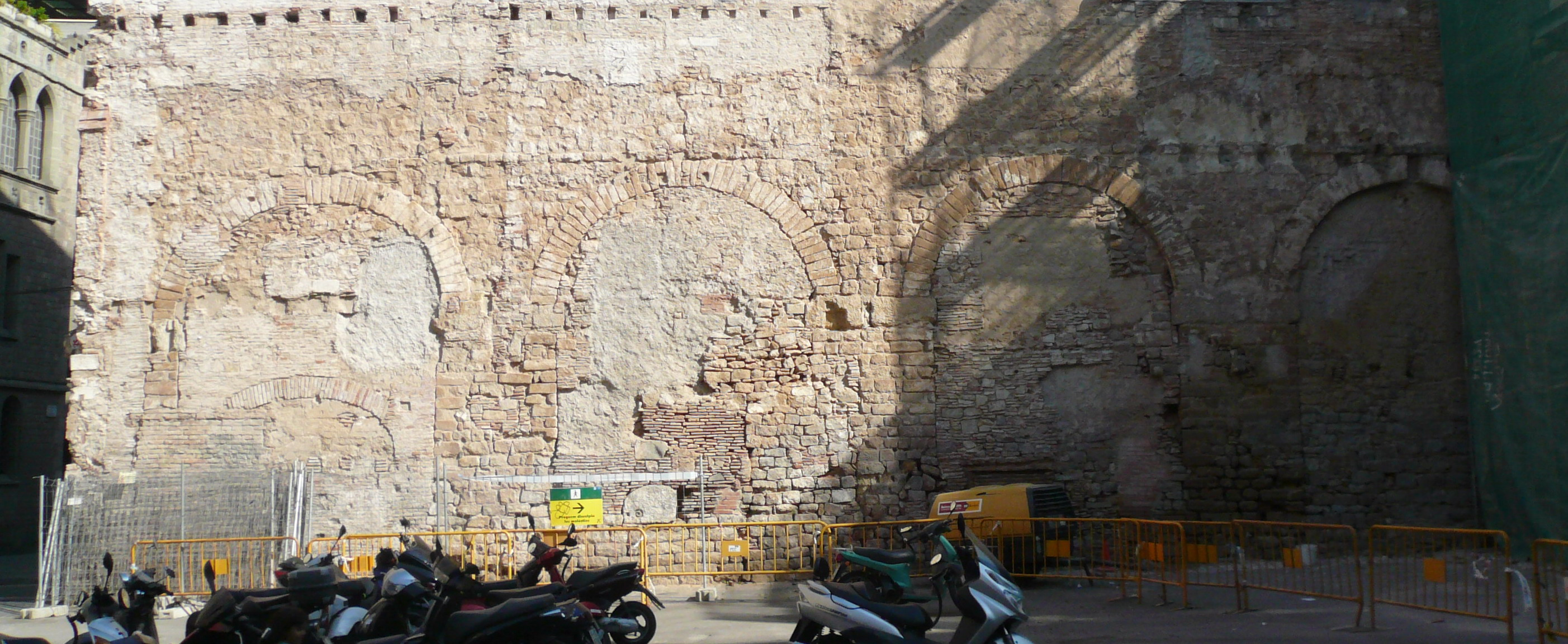 Arcs of roman aqueducts in Barcelona, Catalonia